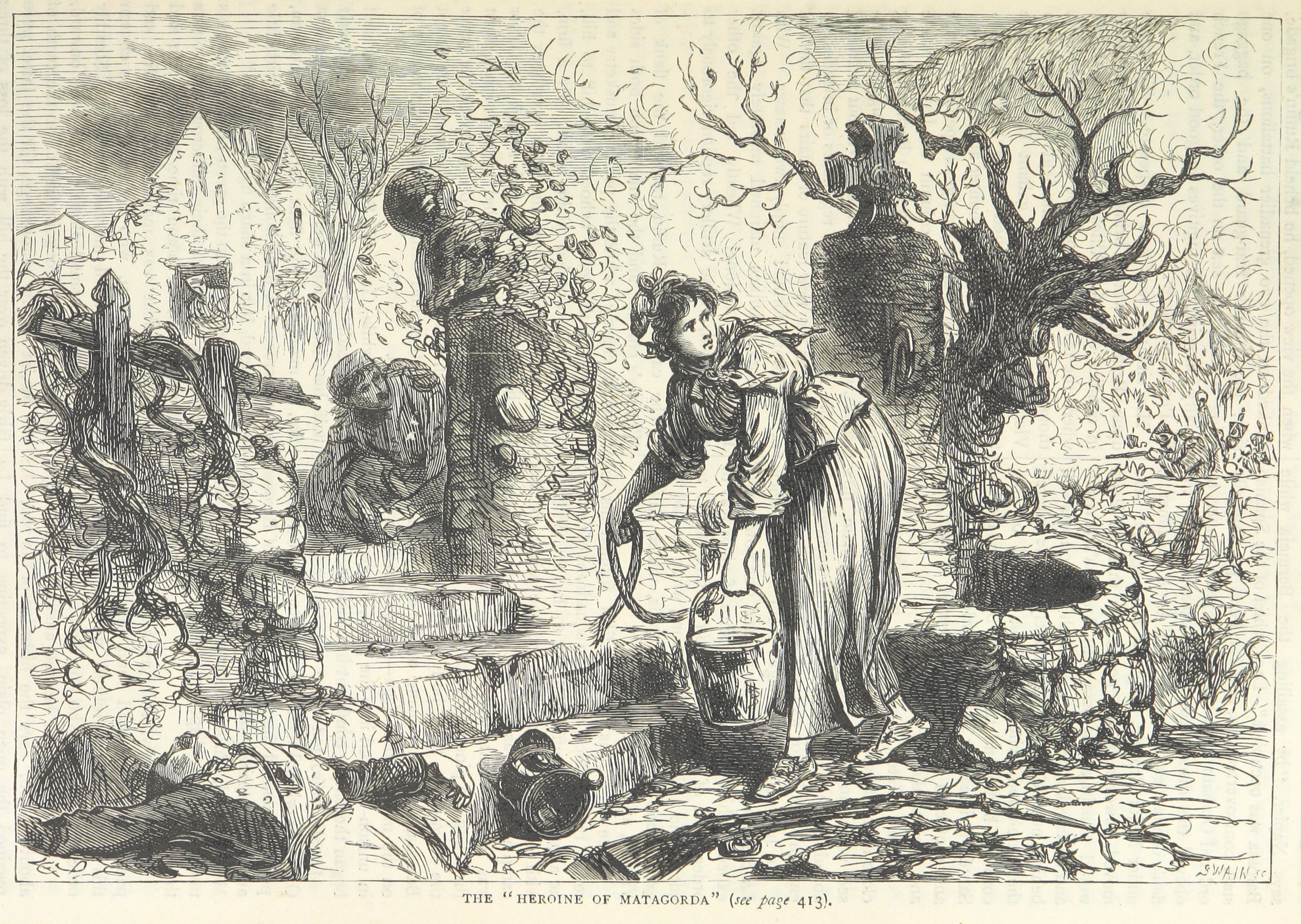 Agnes Reston, known as the "Heroine of Matagorda" for her actions to help wounded soldiers during the Peninsular War.